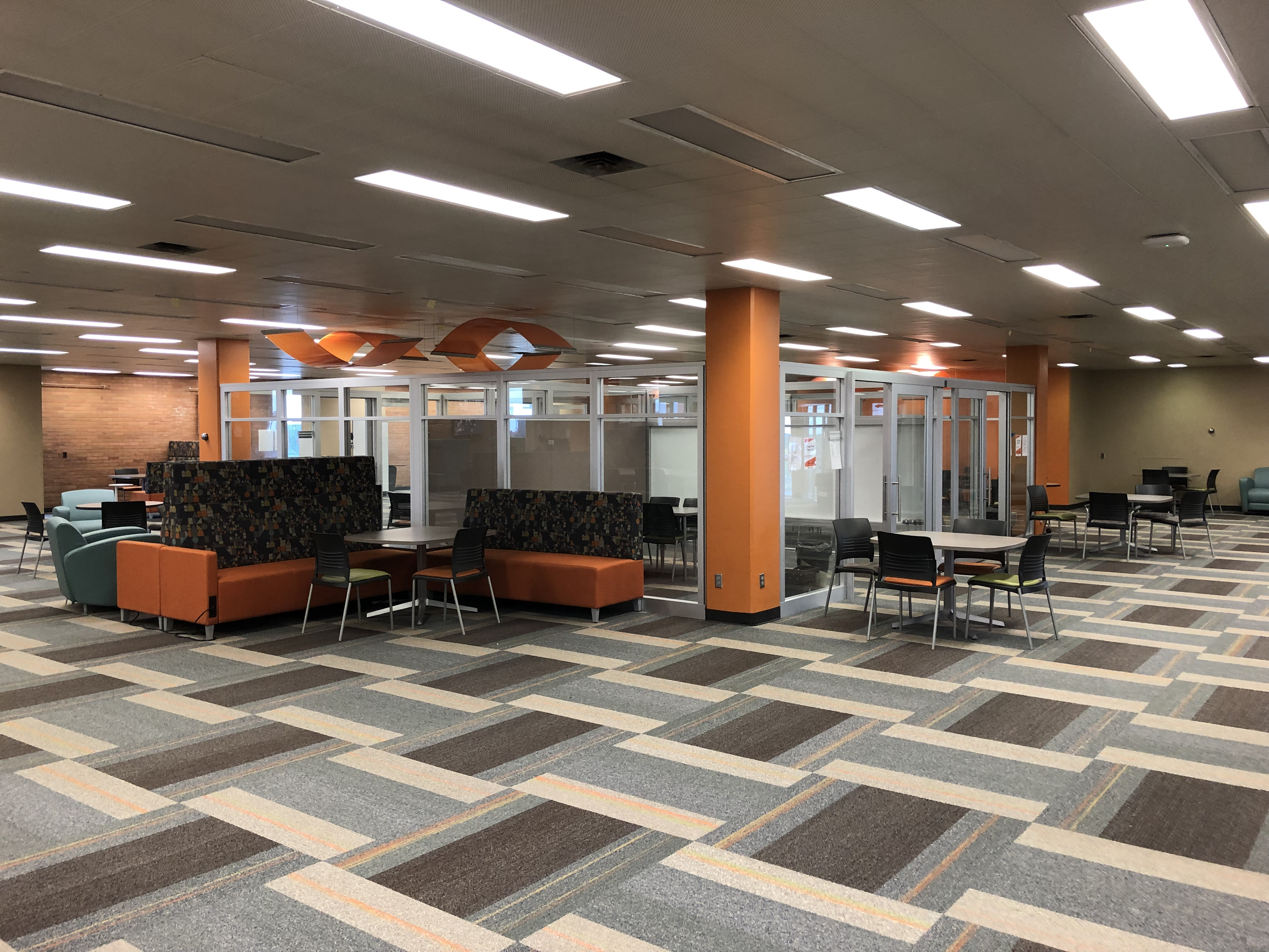 Jerome Library 7th floor group study